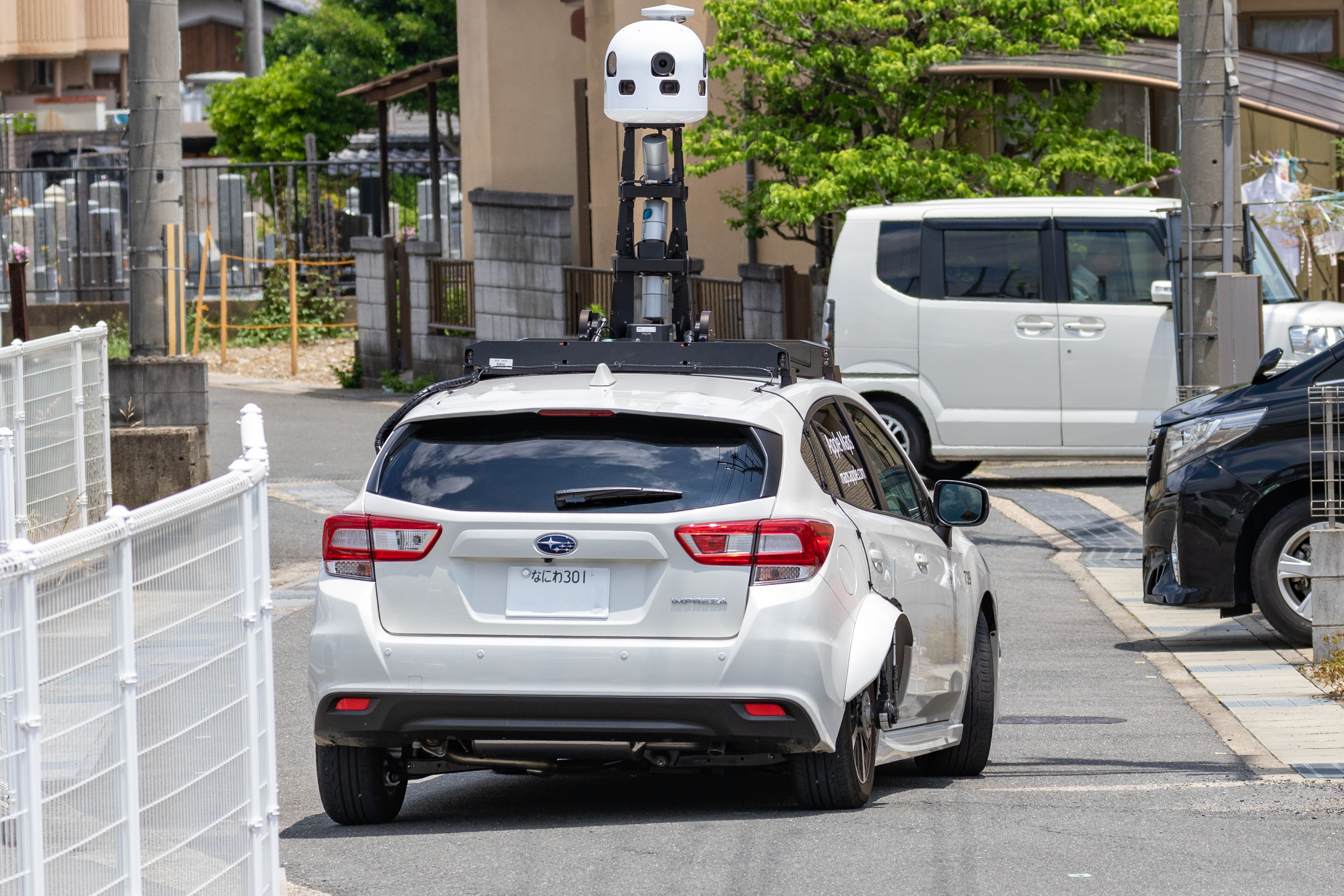 "Apple maps" vehicle that takes pictures of scenery along the road.(Subaru Legacy) Photograph Locations is Nagaokakyo, Kyoto, Japan.